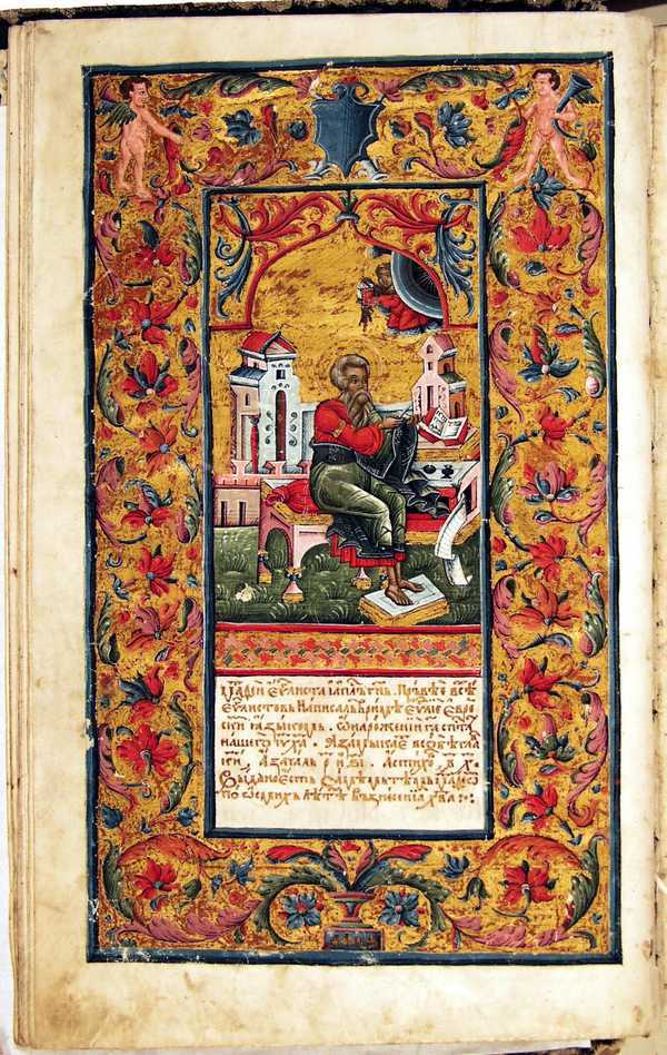 Peresopnytsia Gospels. 1556-1561. Miniature of Saint Matthew.